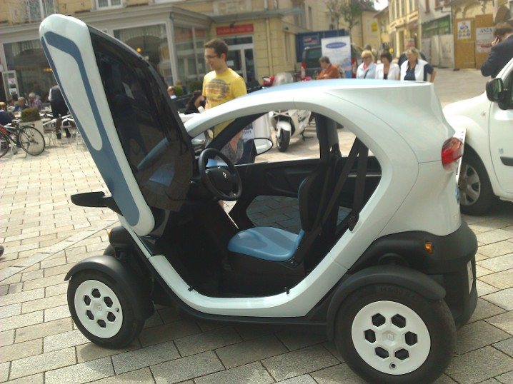 Renault Twizy at the automobile show in Baden, Lower Austria, Austria